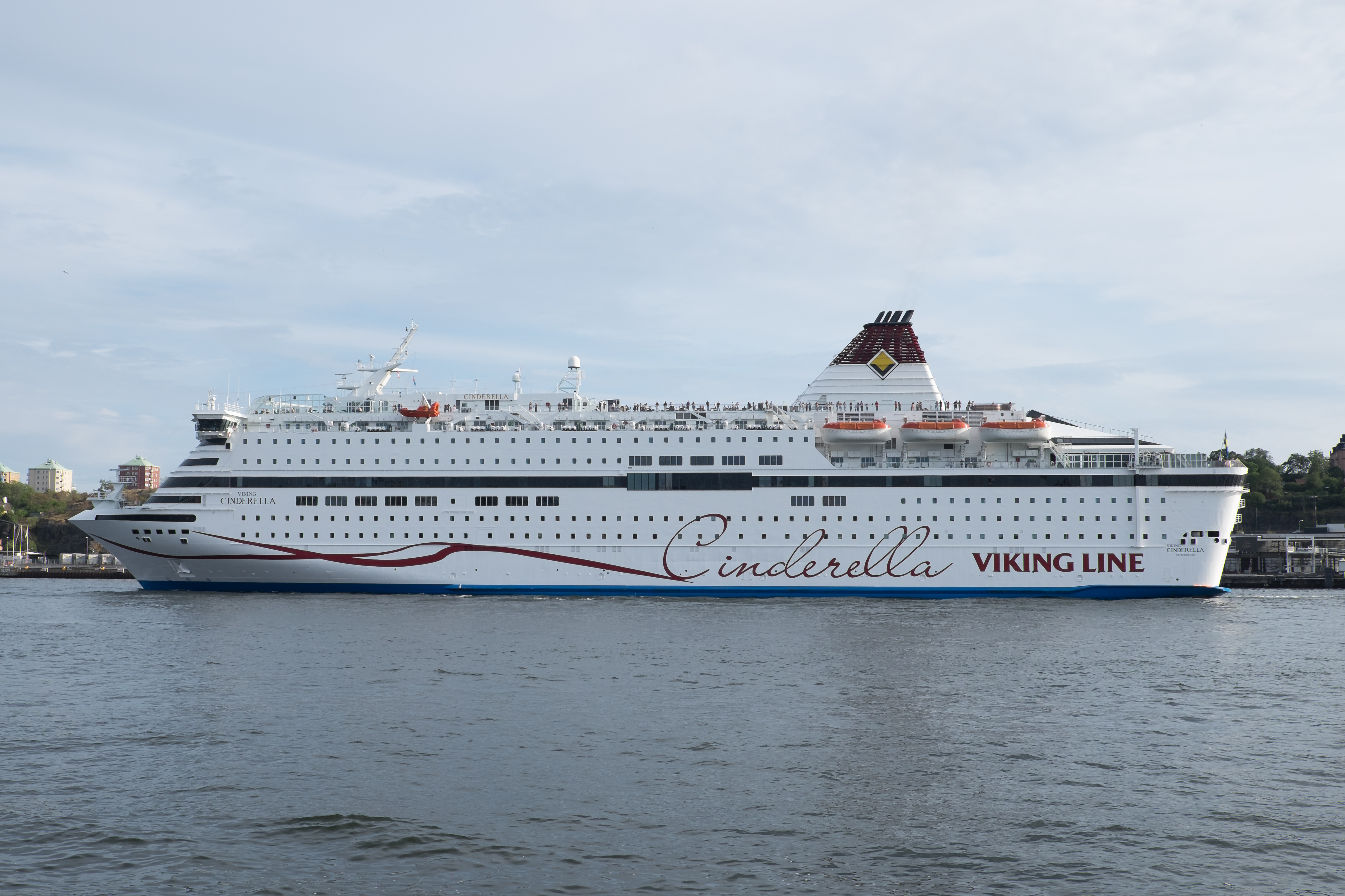 Cinderella ship